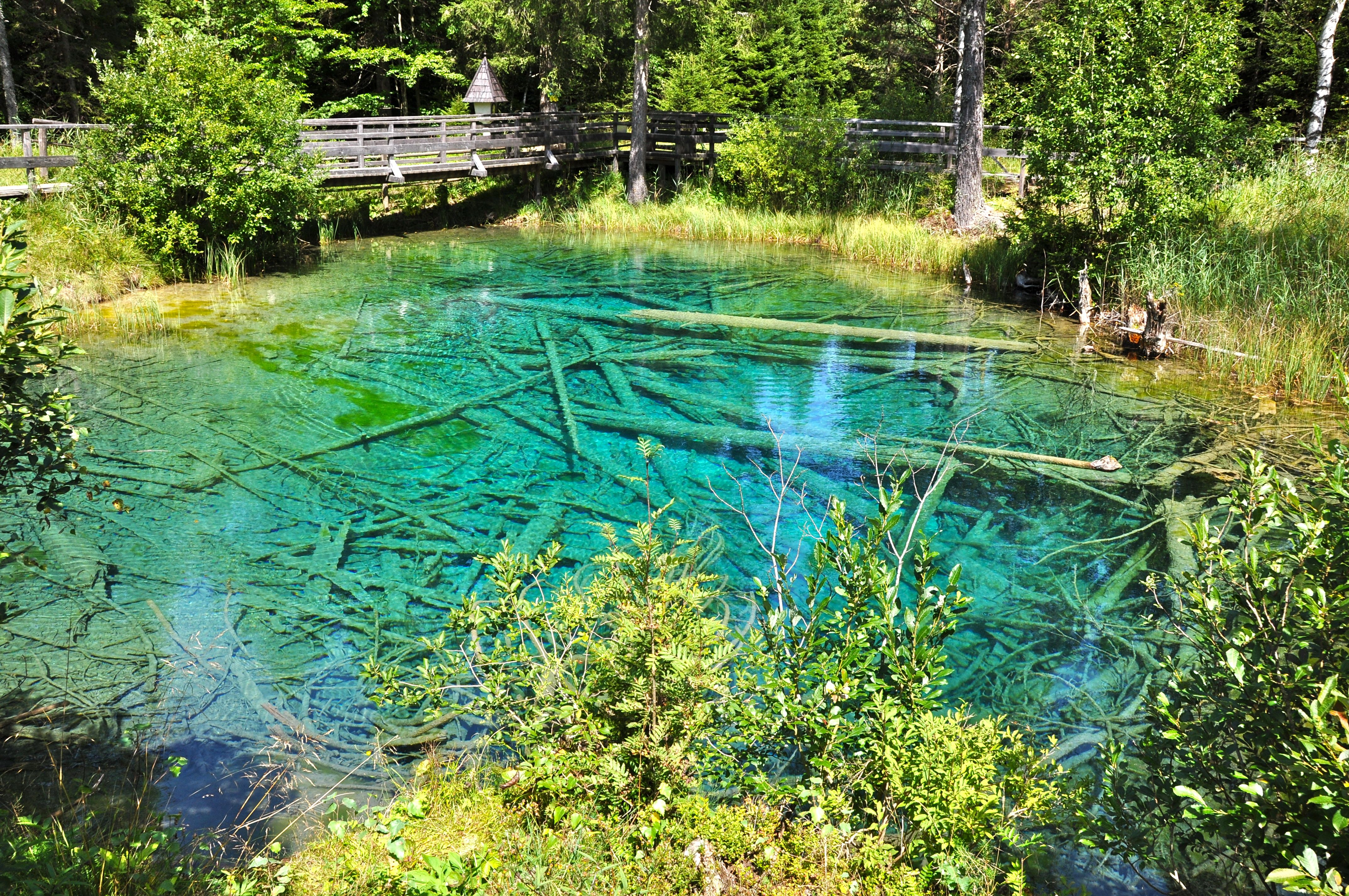 "Meerauge", glacial remnant of a pond with clear water and logs of old dead trees, situated in the Bodental, municipality Ferlach, district Klagenfurt-Land, Carinthia, Austria